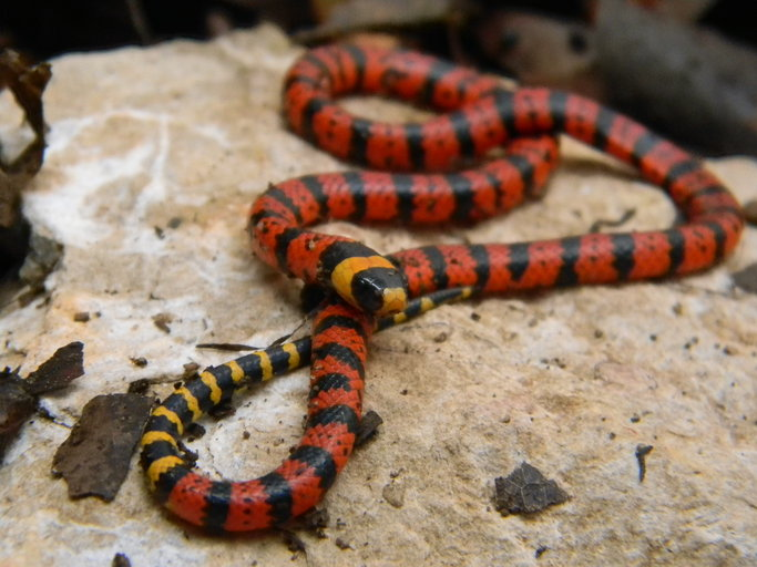 Micrurus diastema from Selva Lacandona, Chiapas (Mexico)